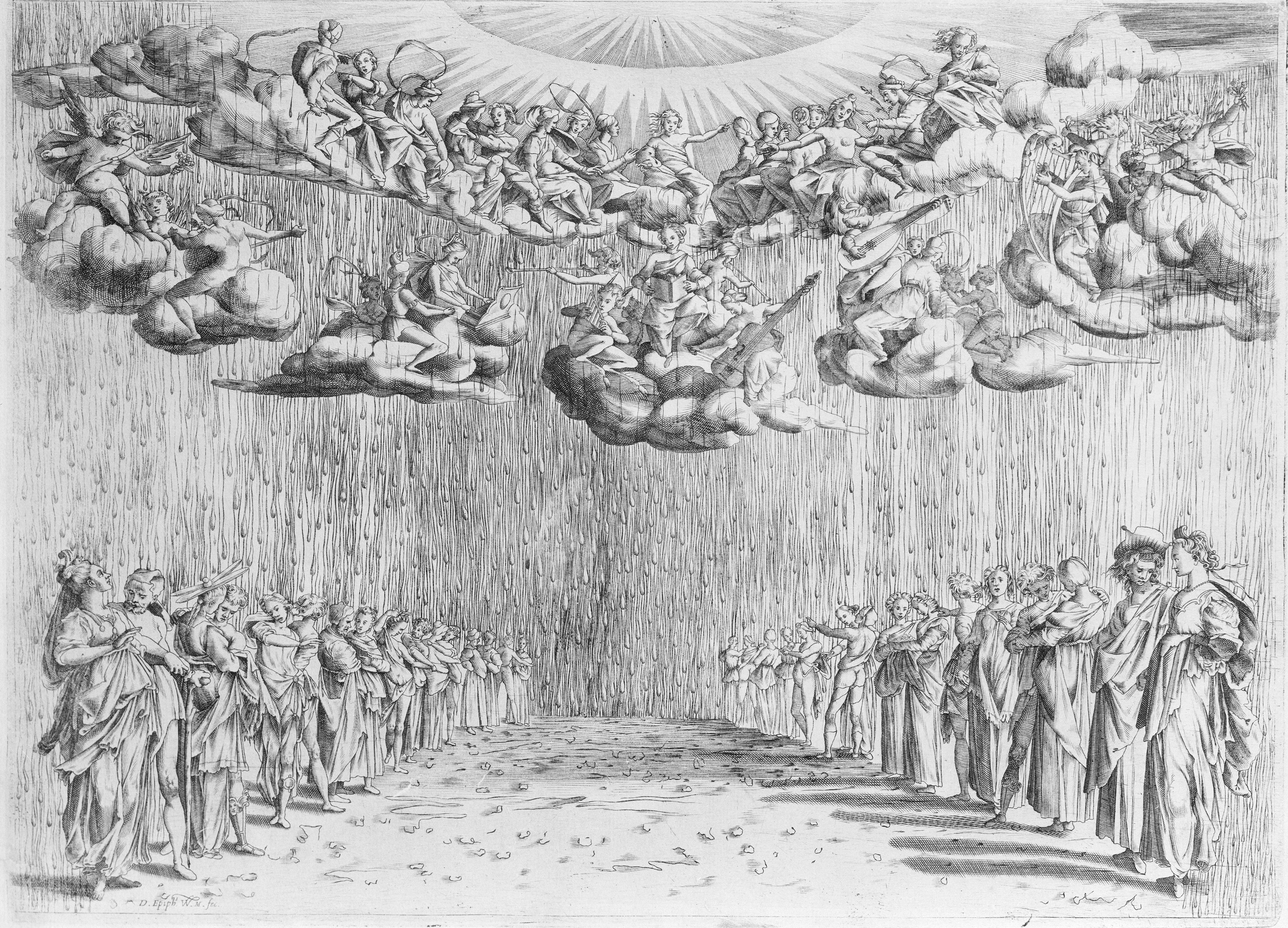 Stage design for the sixth Intermedio (Descent of Rhythm and Harmony) at the Medici Wedding of 1589; engraved by Carracci after a drawing by Bernardo Buontalenti